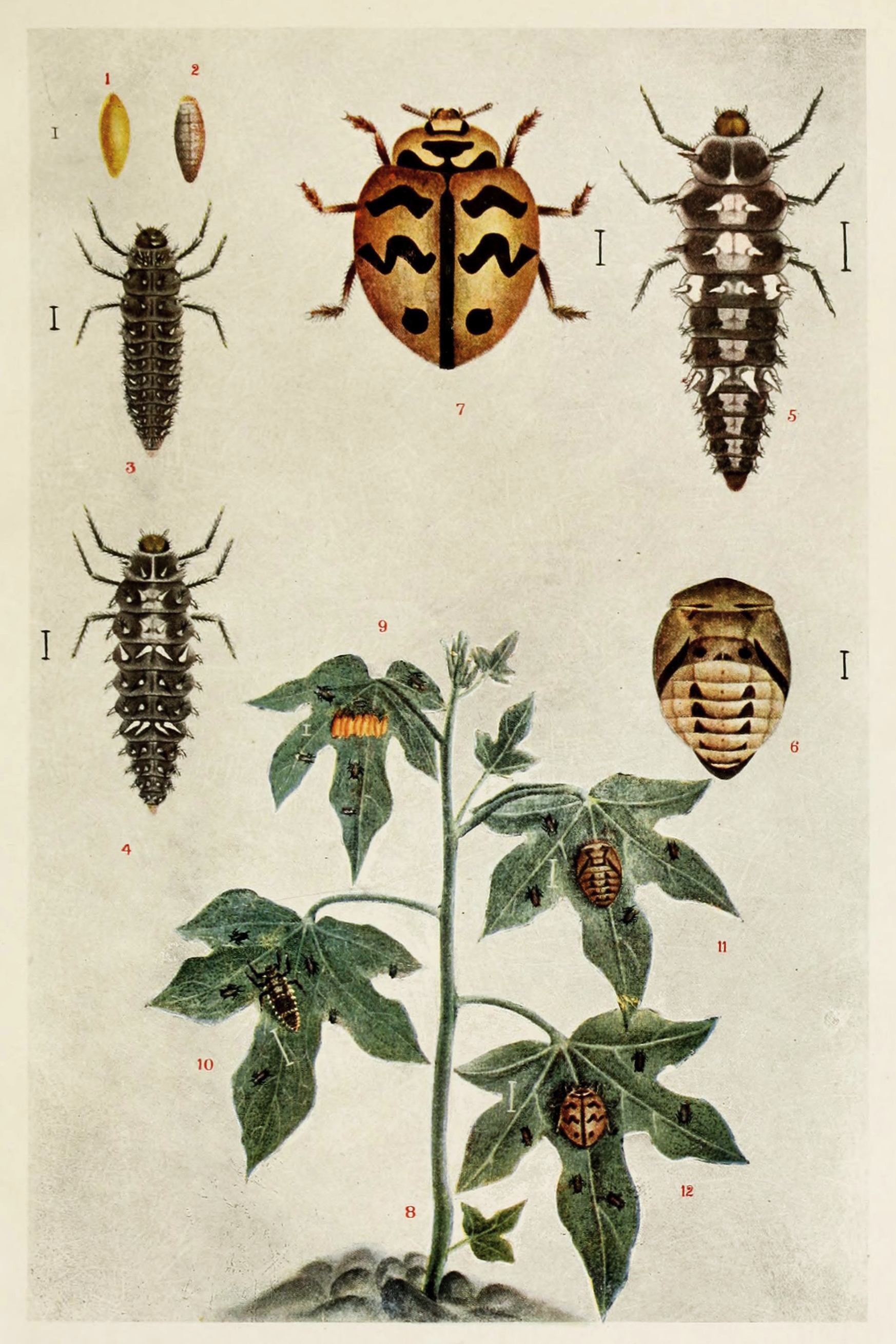 Picture from book Indian Insect Life: a Manual of the Insects of the Plains by Harold Maxwell-Lefroy.